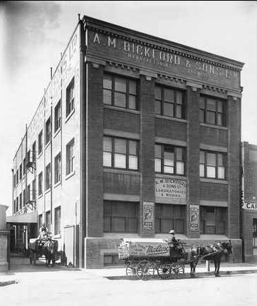 A. M. Bickford & Sons Ltd, Laboratories & Works, 1916 Waymouth Street, north side. Frontage of building is 13.5 yards. Near side is 11 yards east of Young Street [General description] This three storey brick building is the premises of A.M. Bickford & Sons. Two of the firm's horse drawn delivery wagons are proudly posed in front of the building. On one of the wagons is an advertisement for Maltox, "The tonic drink for all". Advertisements for Bickford's "Our Jack" brand, featuring a kookaburra with the words "sign of quality" are displayed on the building. William Bickford, a chemist, arrived in South Australia in 1839 and established the first druggist in Hindley Street. Upon his death in 1850 his wife, Ann Margaret continued the business which later became A.M. Bickford & Sons in 1871. In 1874 Bickford's bought a cordial factory in Waymouth Street and the family firm still flourishes today (2009), trading as Bickfords Australia. [On back of photograph] 'Acre 175 / Waymouth Street, north side / may 1916 / Frontage: 13.5 yards. Near side is 11 yards east of Young Street.'